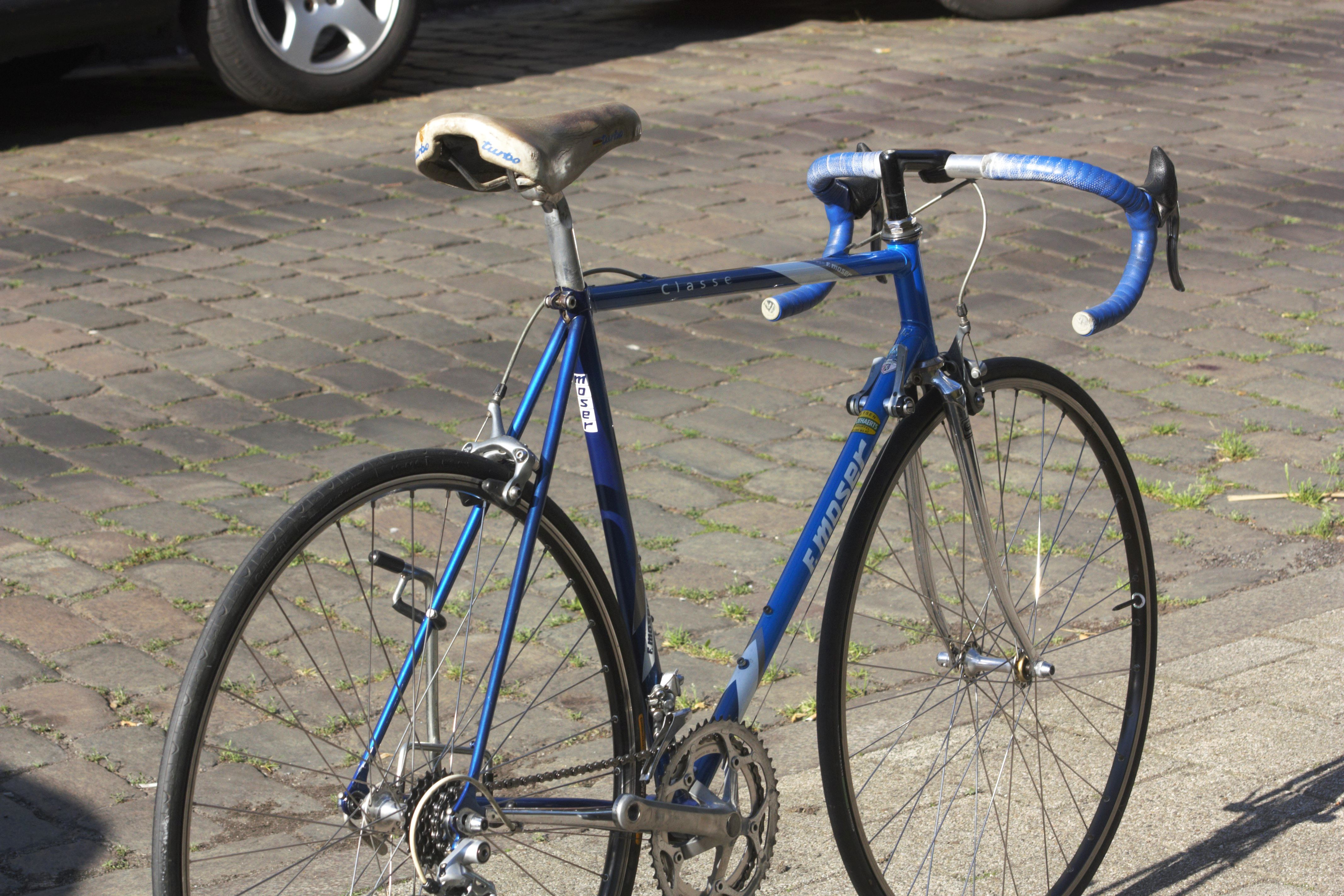 Francesco Moser Roadbike from early 1990